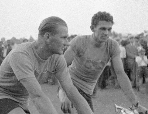 August Prosenik (left) and Aleksandar Zorić at the Peace Race in Warsaw